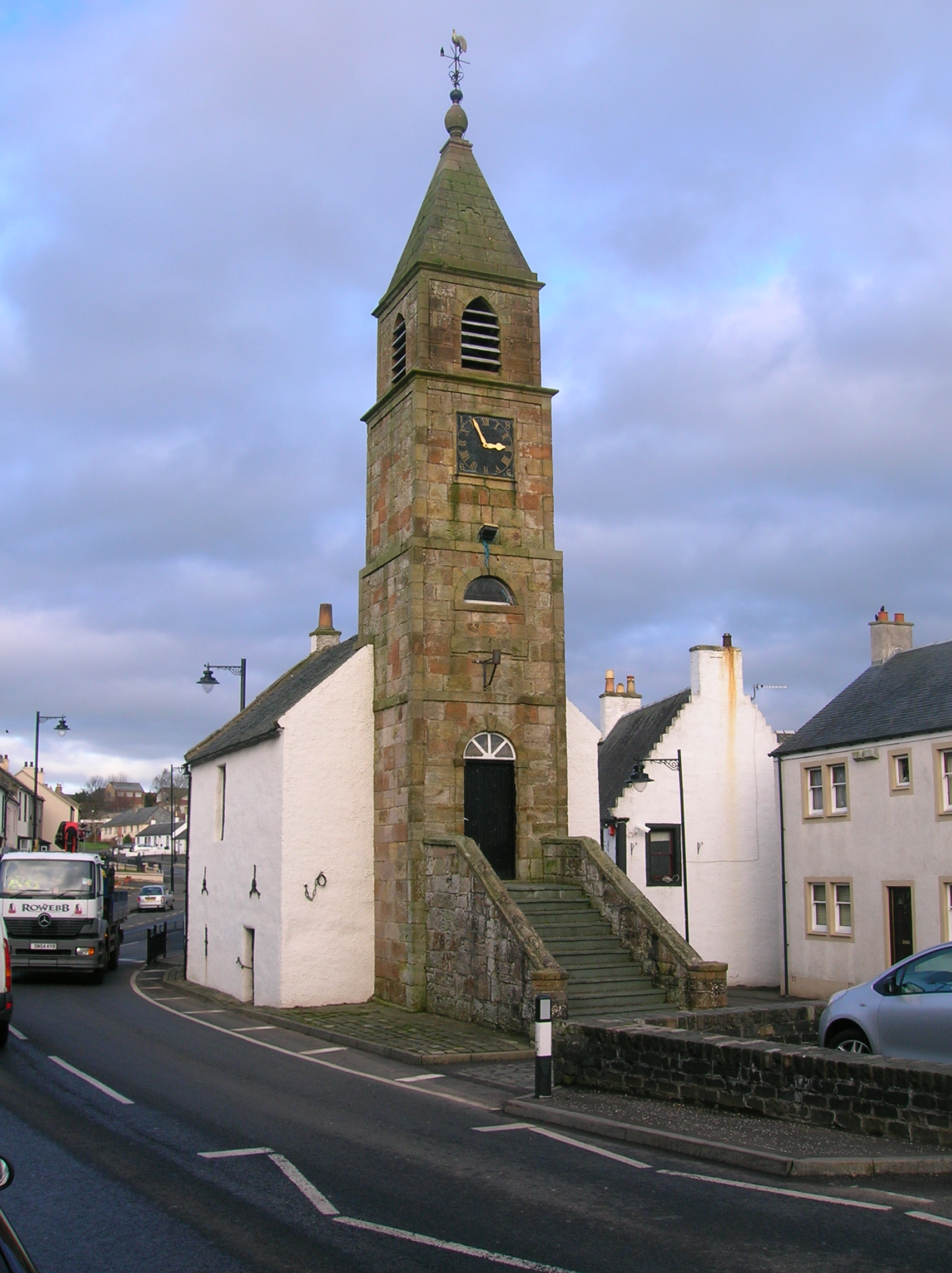 The 'Jougs', Council chambers, in Kilmaurs, East Ayrshire, Scotland.